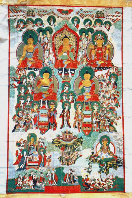 칠장사 오불회개불탱, Chiljangsa Obulhoe Gwaebul taeng (Painting of the Five Buddhas)